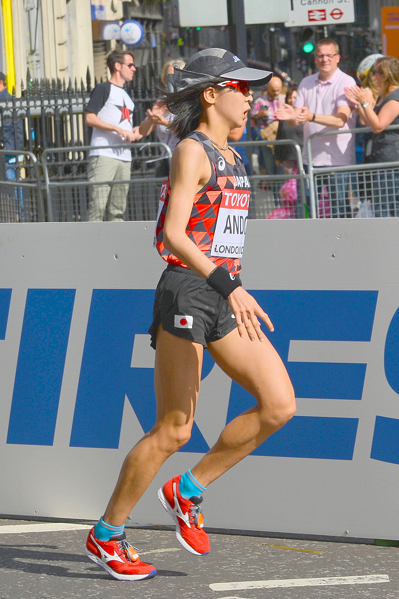 Yuka Ando (Marathon, 2017 IAAF) Women's Marathon- 06/08/2017